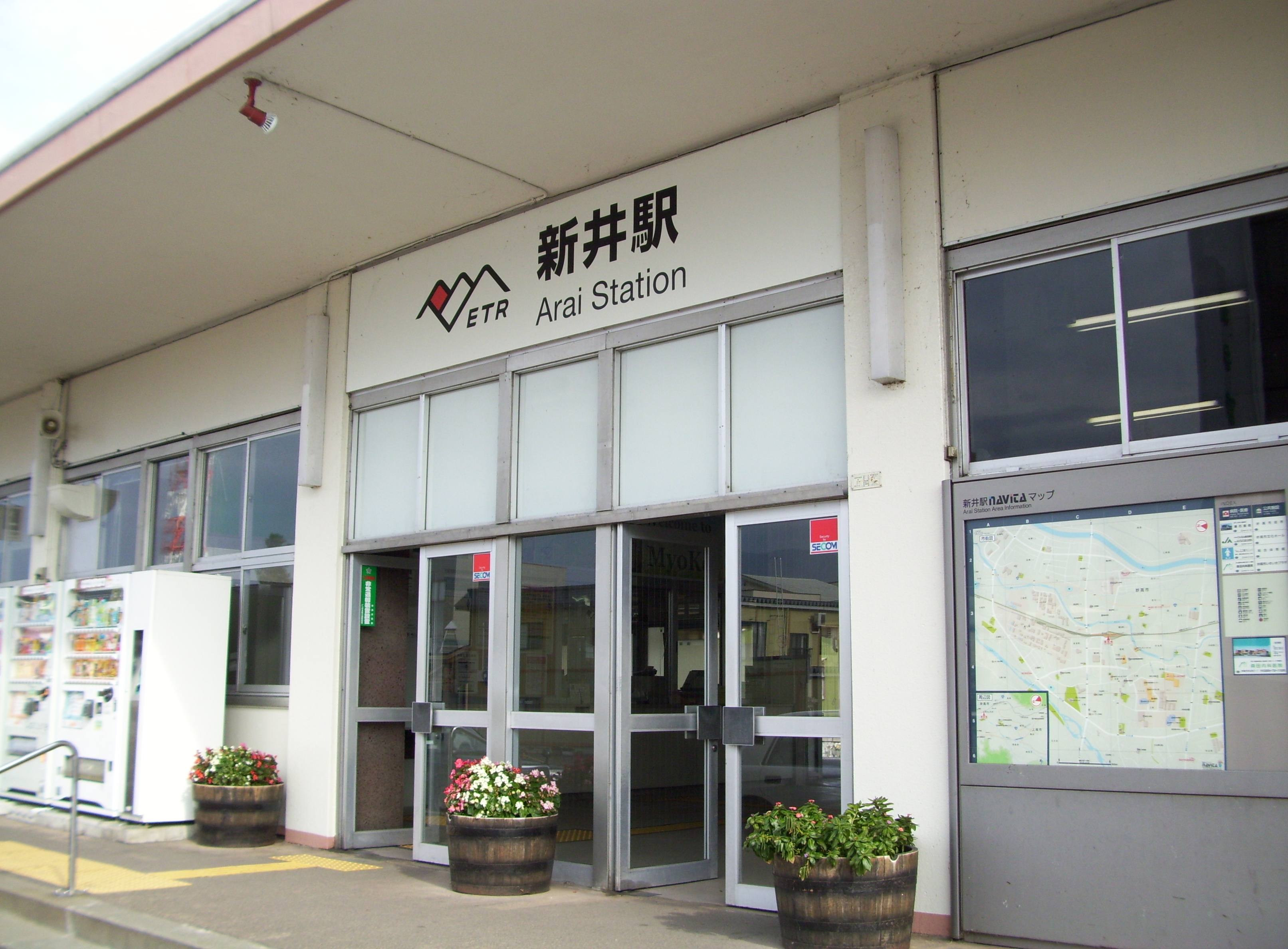 The entrance to Arai Station on the Echigo Tokimeki Railway Myoko Haneuma Line in Niigata Prefecture, Japan